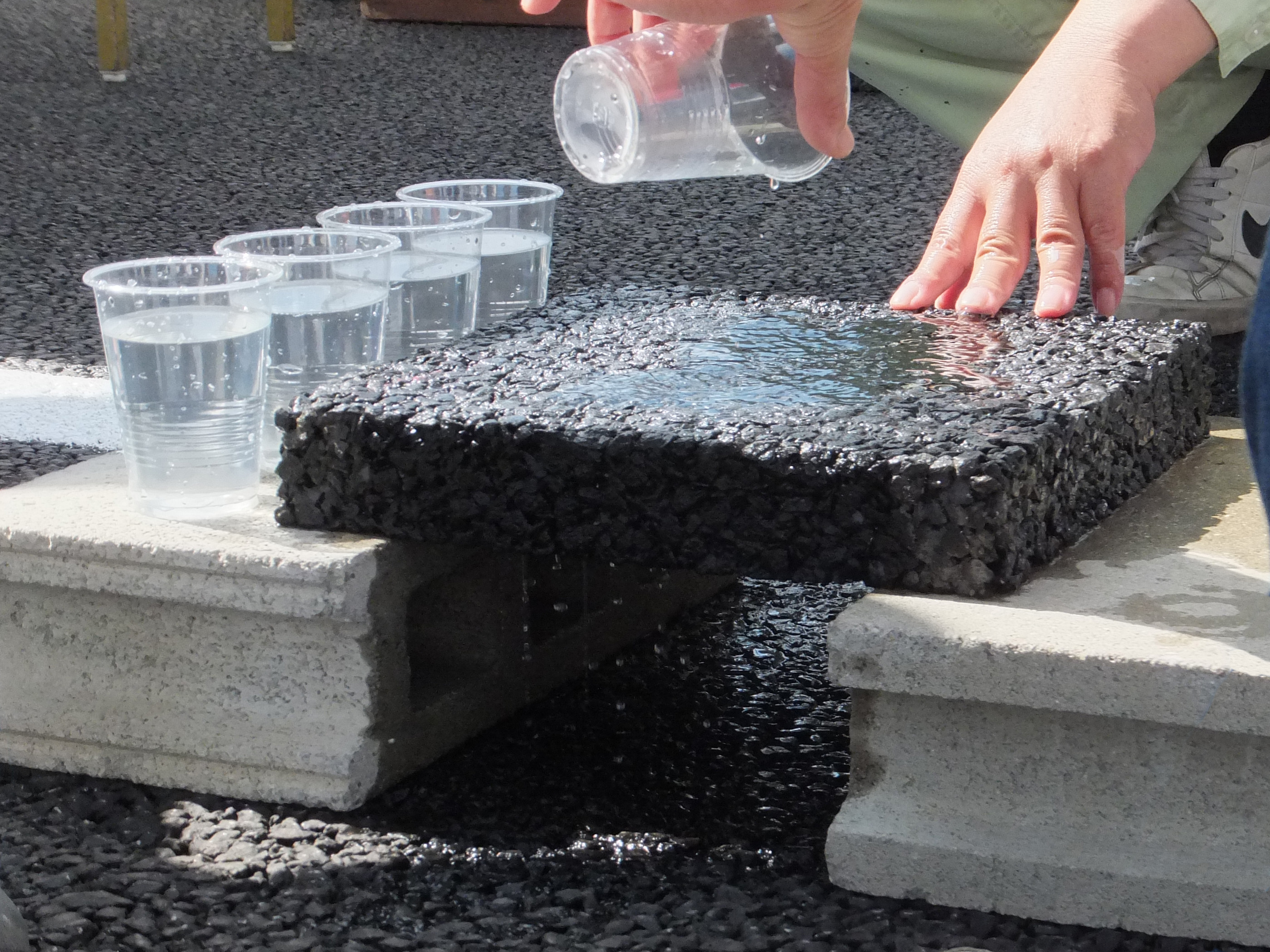 Demonstration experiment of the permeable paving.